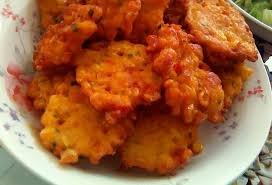 Dadar Jagung